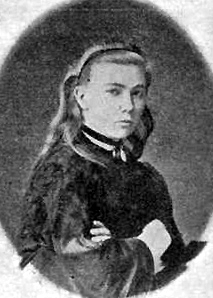 Sofija Rusowa, from the Exhibitions /The 155th Anniversary of the Birth of Sofia Fedorovna Rusova, Central State Archives of Higher Authorities and Administration of Ukraine